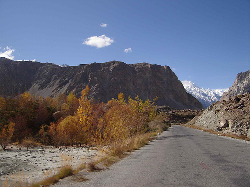 Batura glacier, Gojal, in the far north of Pakistan near the borders with China and Afghanistan.